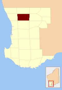 location of Victoria plains county in Western Australia